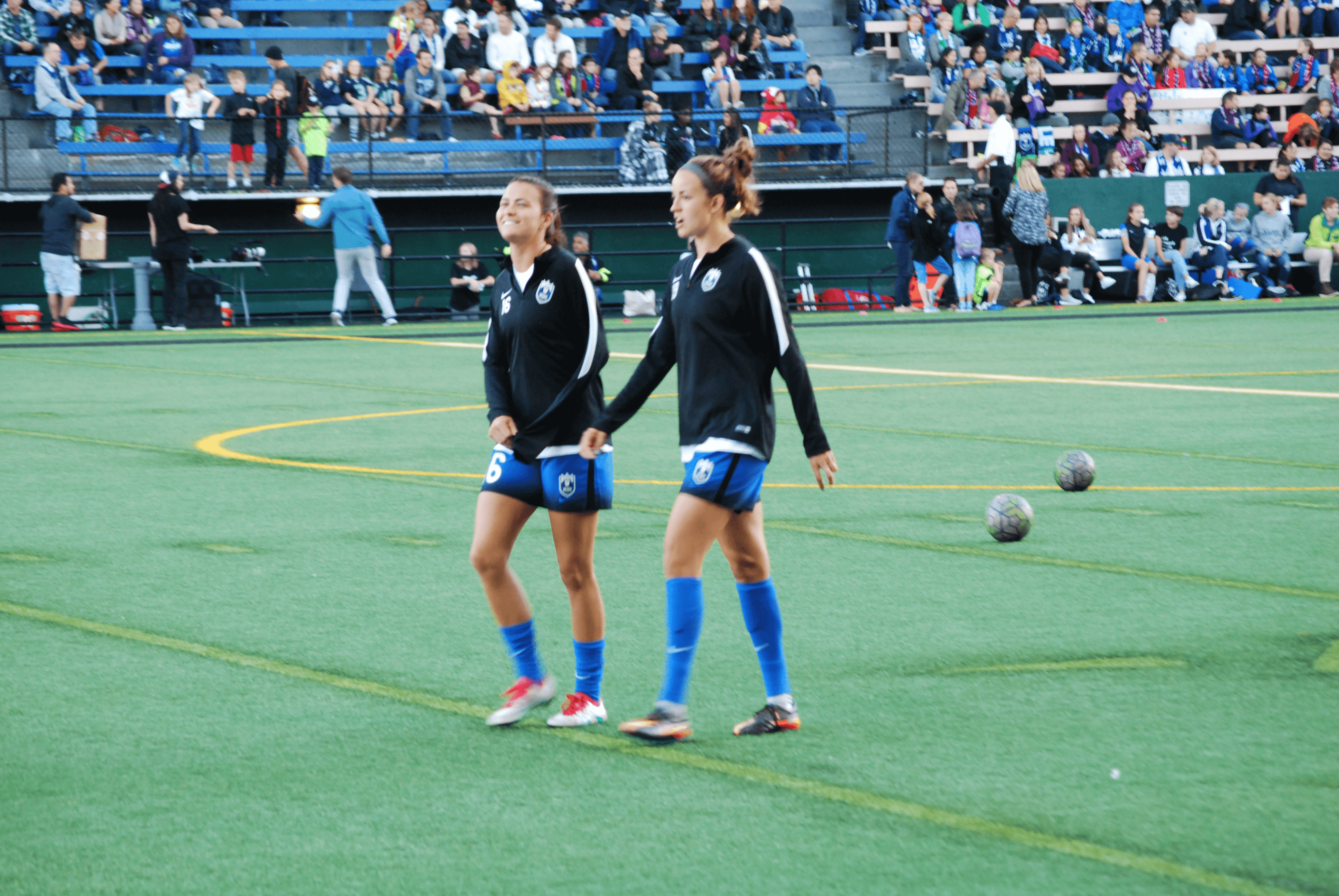 Seattle Reign FC vs Washington Spirit, September 11, 2016 at Memorial Stadium